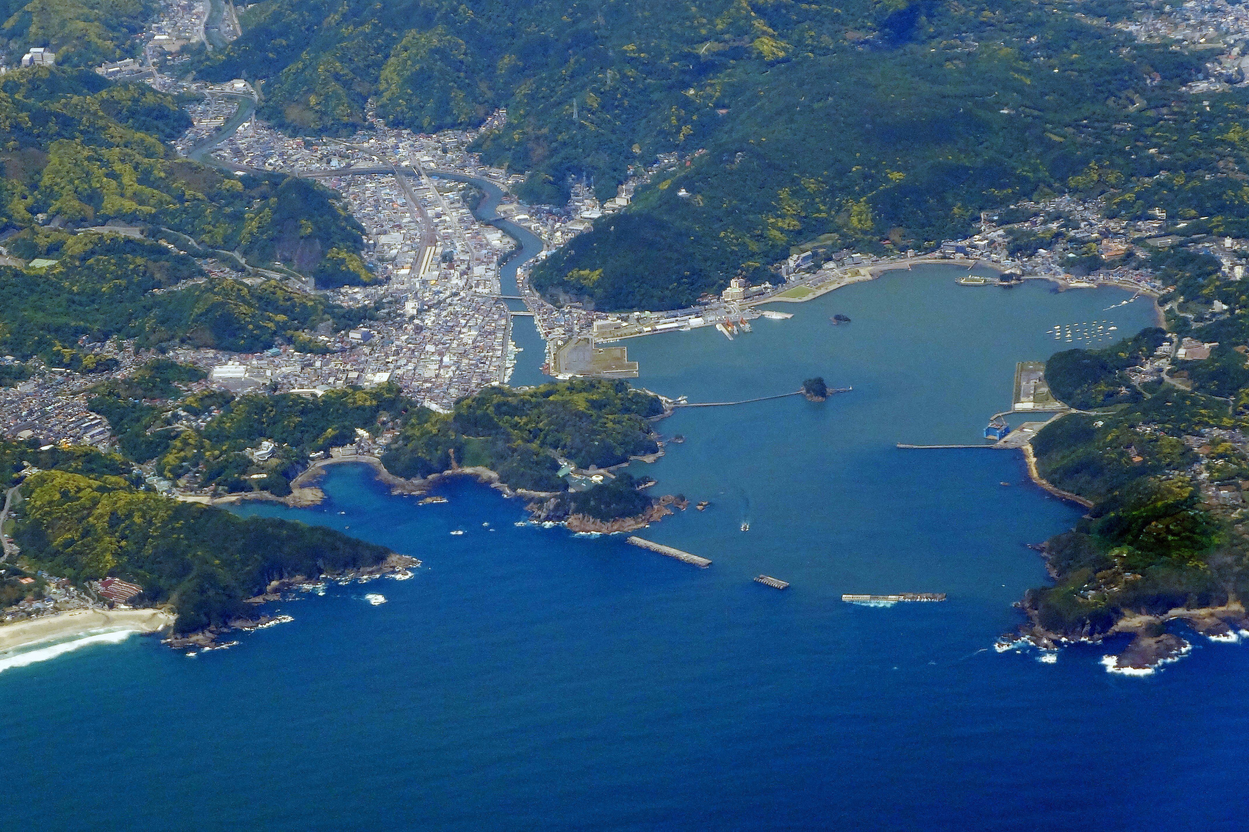 Shimoda Port from the sky in Shimoda City, Shizuoka prefecture, Japan.